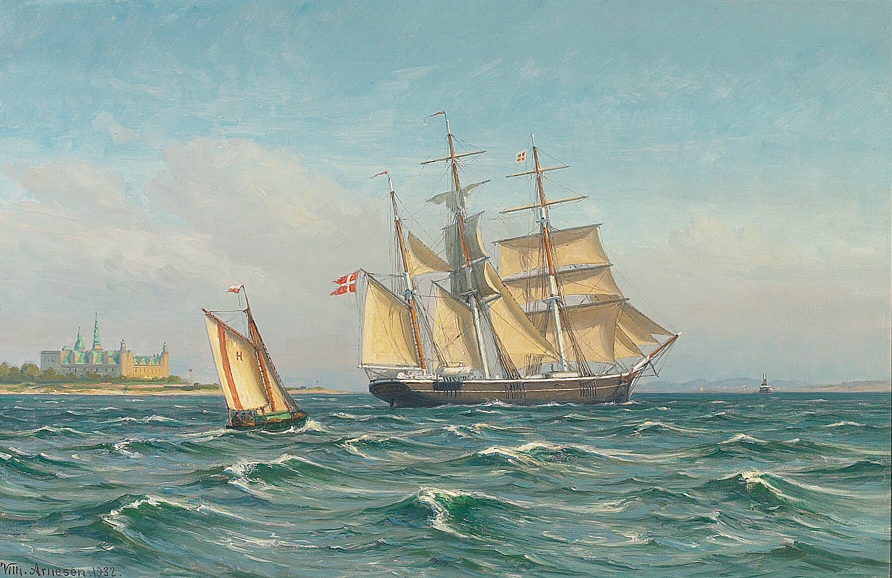 The experts af Bruun Rasmussen referred to the barque as the Thorwahlsen, but that name can not be found in the Danish ship lists. But the barque Thorvaldsen can. It belonged to the Royal Greenland Trade Department, as shown by the dovetail Danish flag. It must, however, have been a trip down memory lane for Arnesen, as the Thorvaldsen was sold to Finnish owners in 1928. jmarcussen.dk (in Danish).